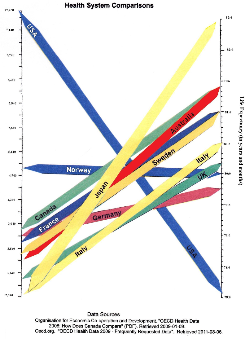 Rotated, cropped and scaled version of File:HC-Graph.jpg